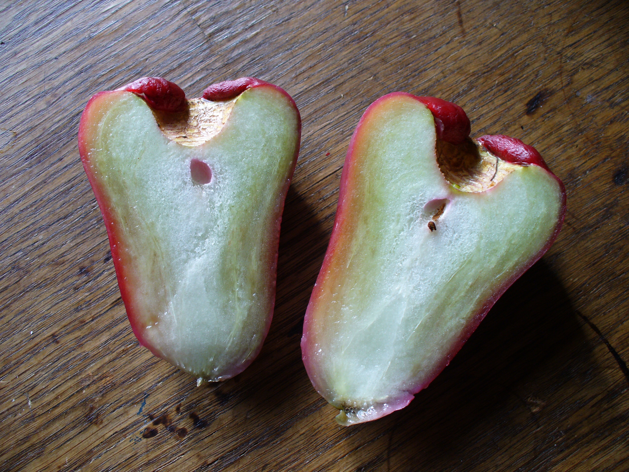 please help to categorize- respect the stress